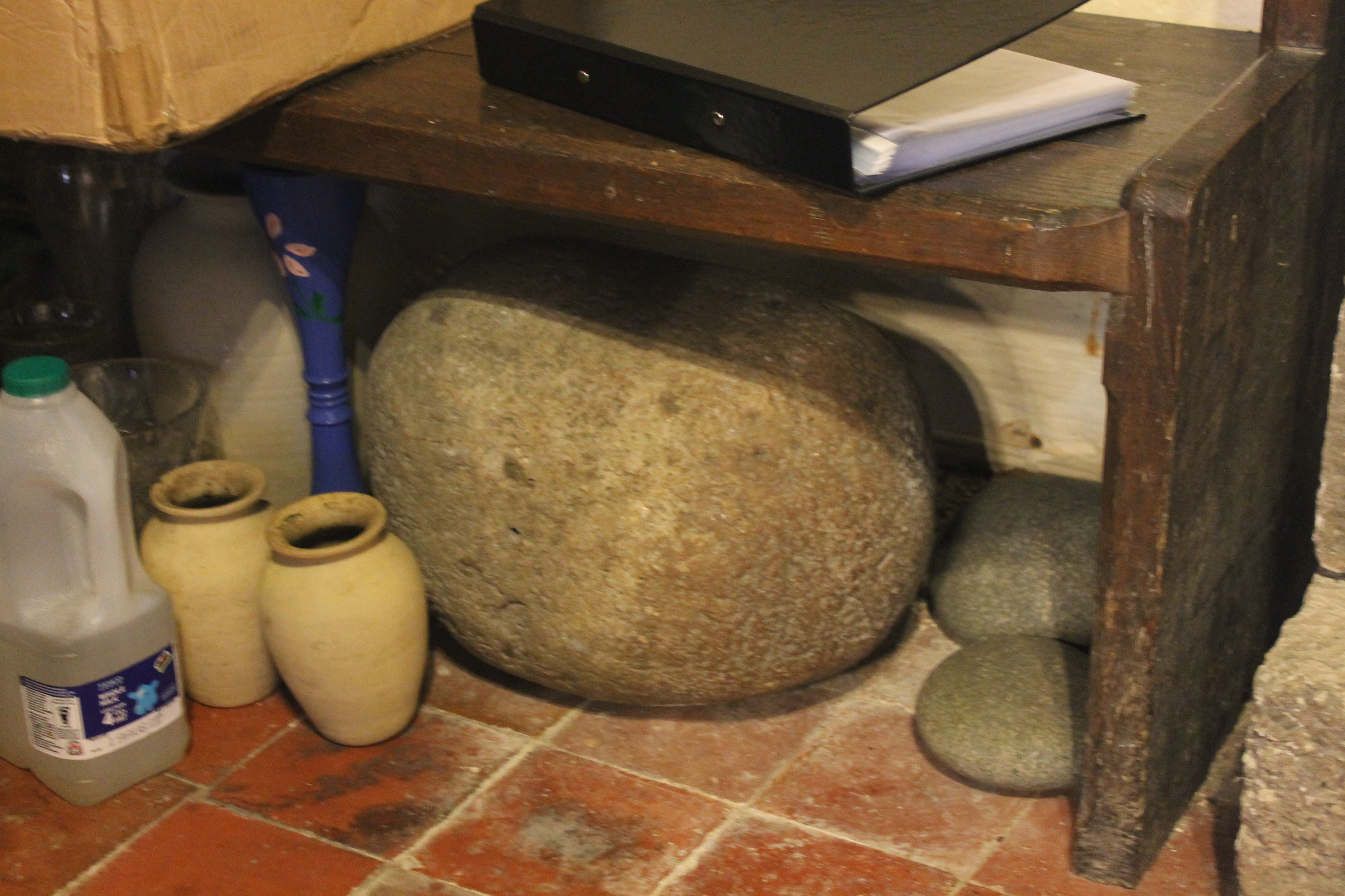 Church of St Michael and All Angels